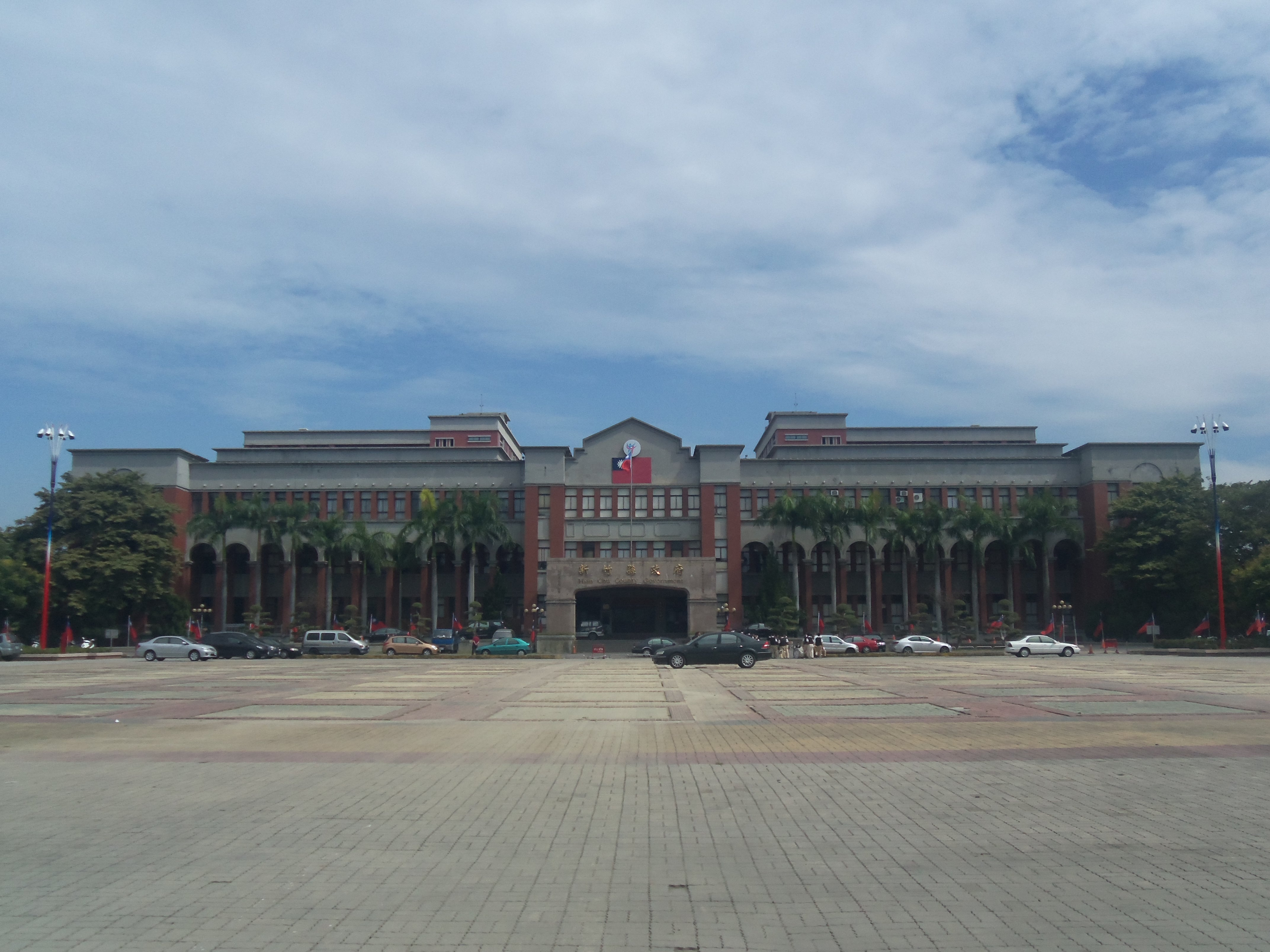 Hsinchu County Government, Zhubei City, Hsinchu County, Taiwana